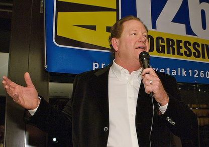 Ed Schultz